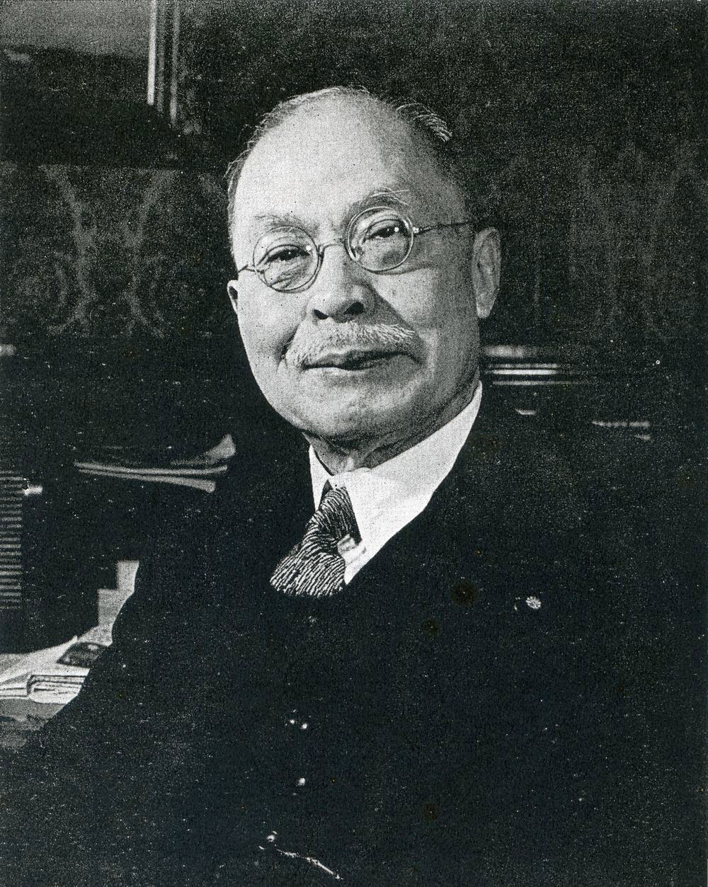 ja: 衆議院議長 幣原喜重郎 en: Speaker of the House Kijūrō Shidehara (1872–1951, in office 1949–51)